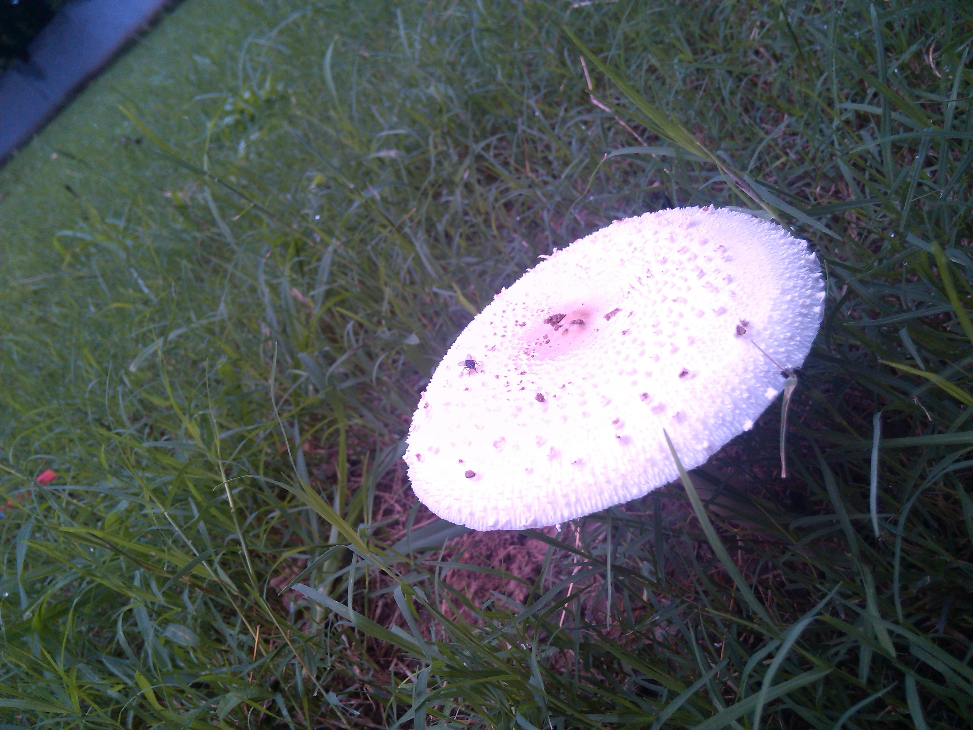 This image of mushroom is captured at Panjab University Chandigarh, India.